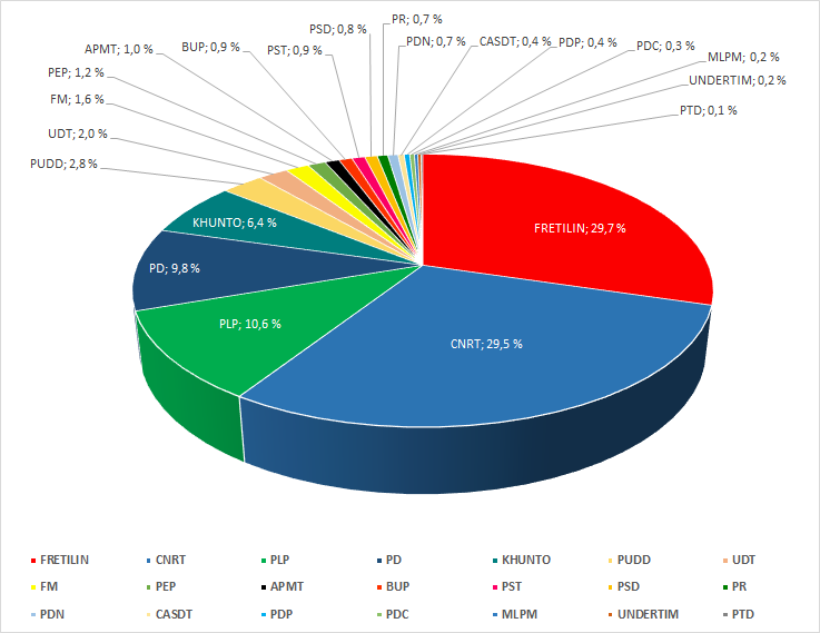 Results of parliament election in East Timor 2017